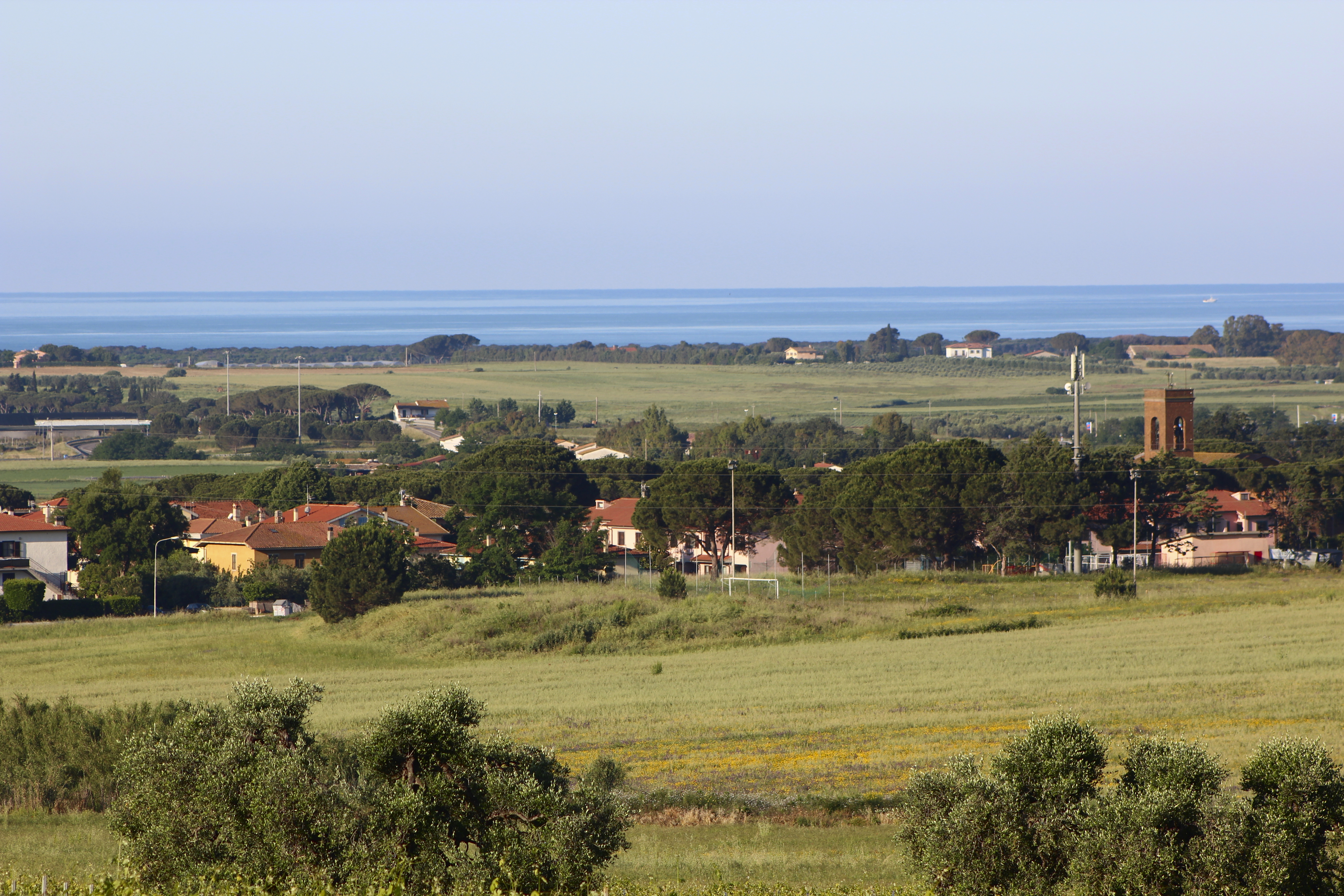 Borgo Carige, hamlet of Capalbio, Province of Grosseto, Tuscany, Italy